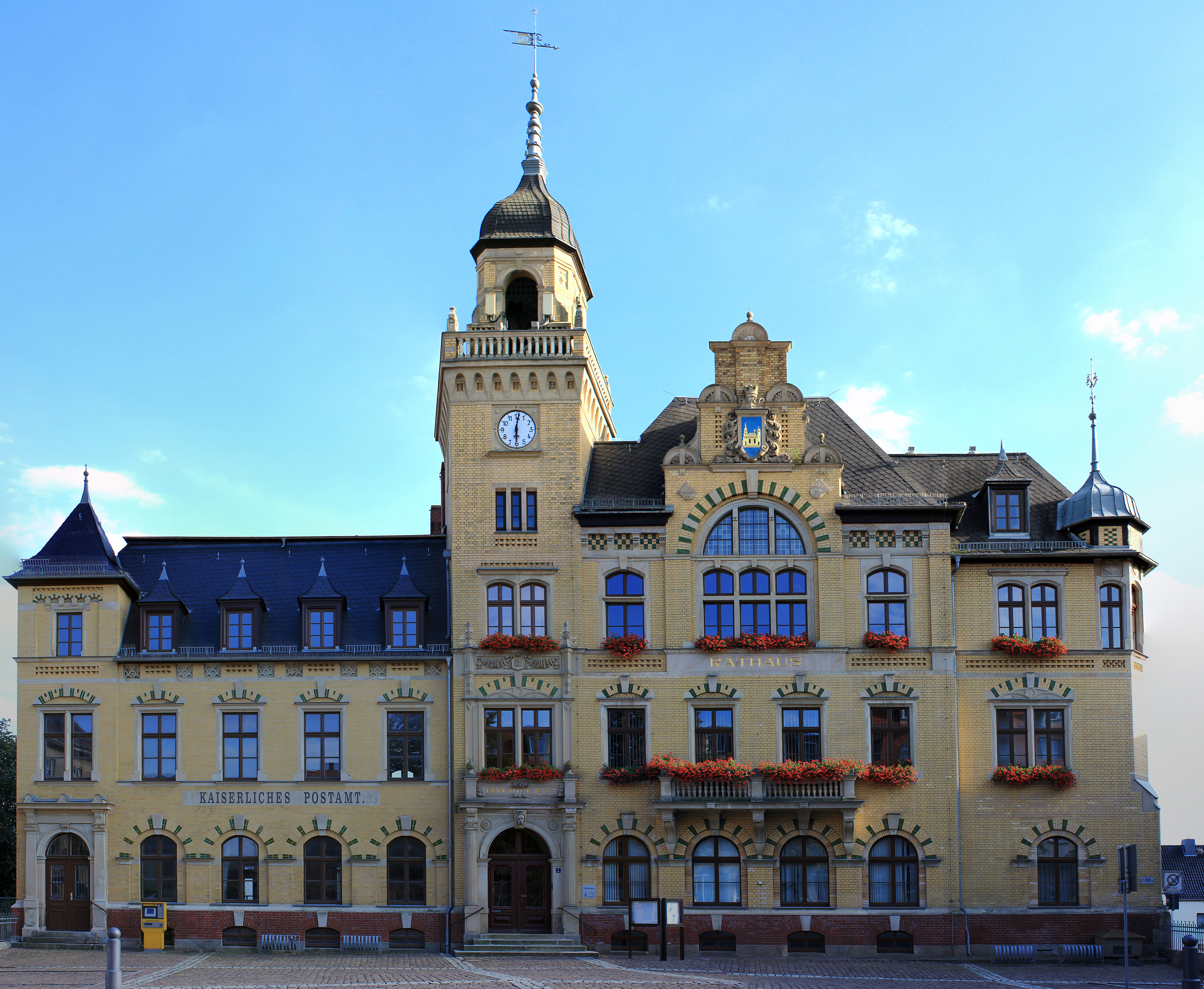 Bad Lausick Townhall square with front view of the historical town-hall